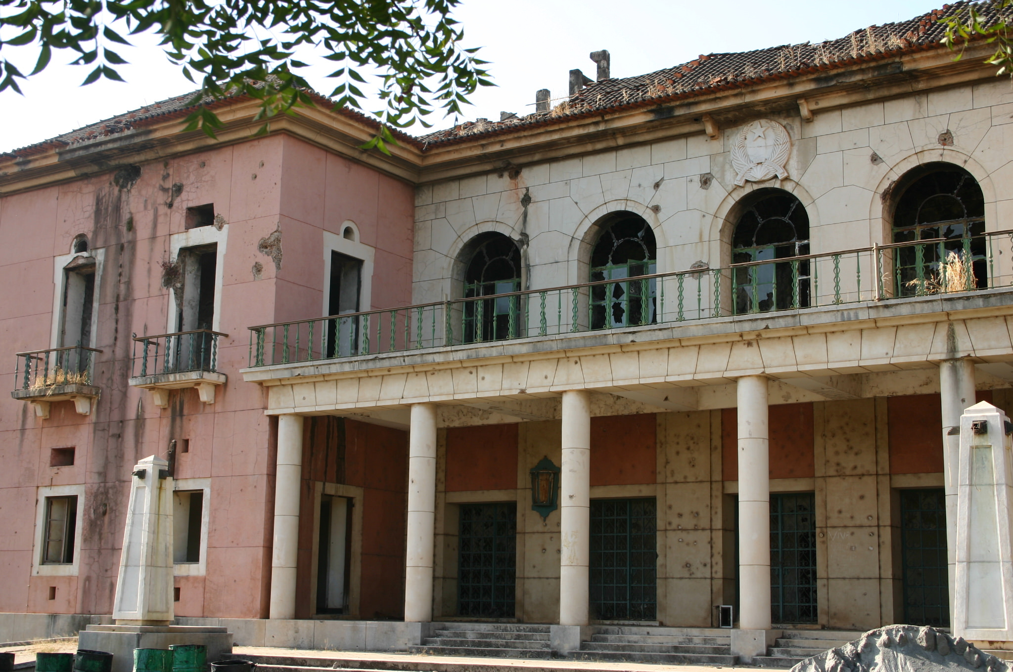 Presidential palace in Bissau, Guinea-Bissau